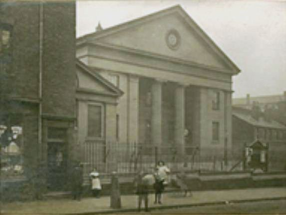 Church of the Saviour, Edward Street (1847–1895), demolished in 1960